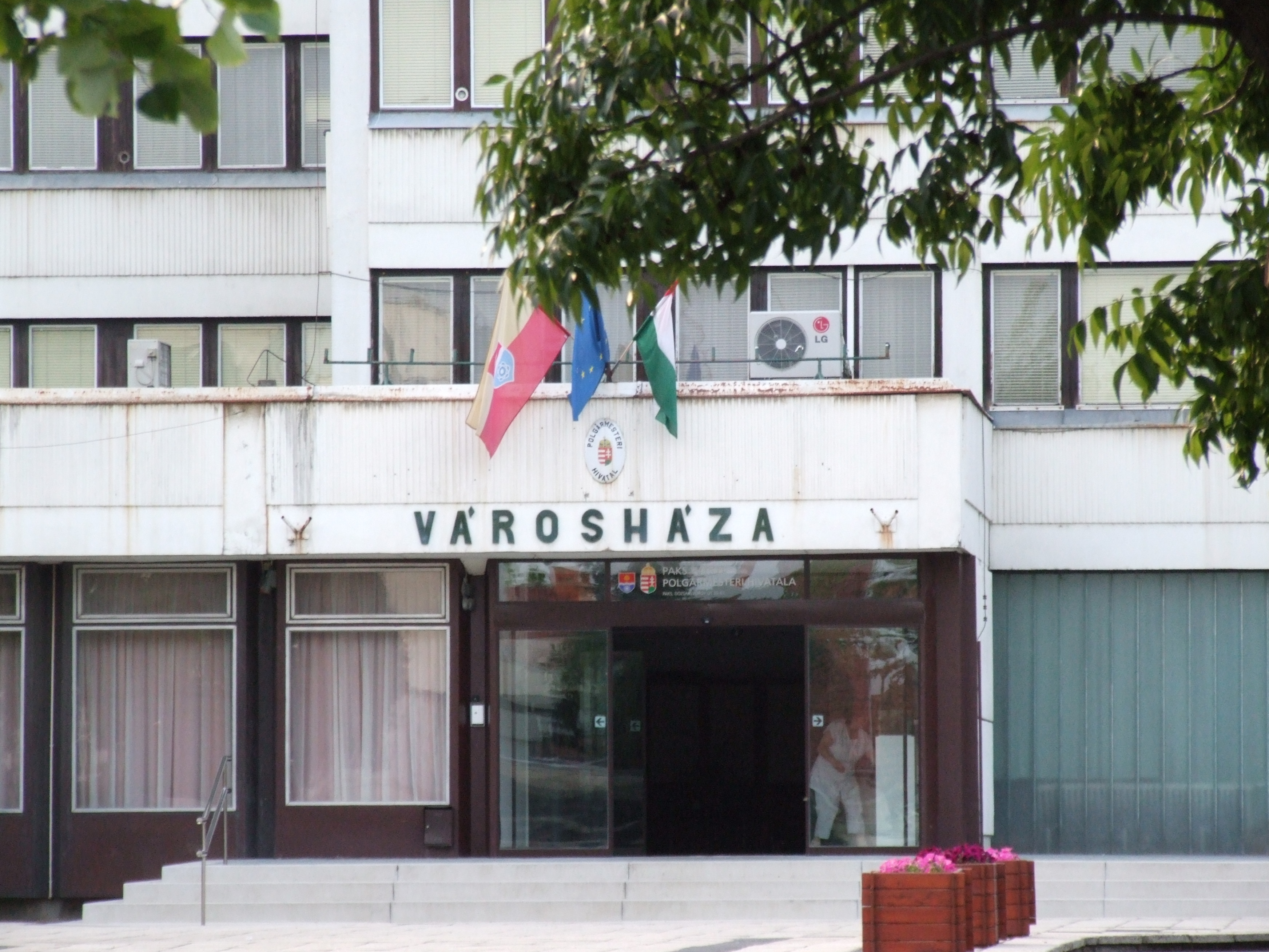 Paks town hall, entrance